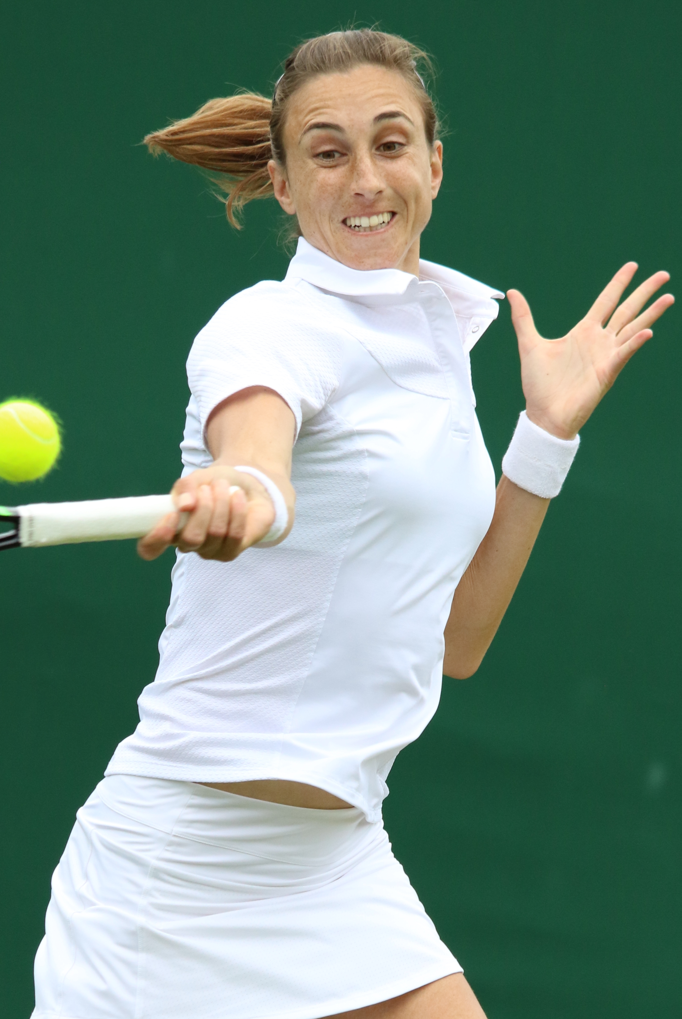 Martic WM19 (15)